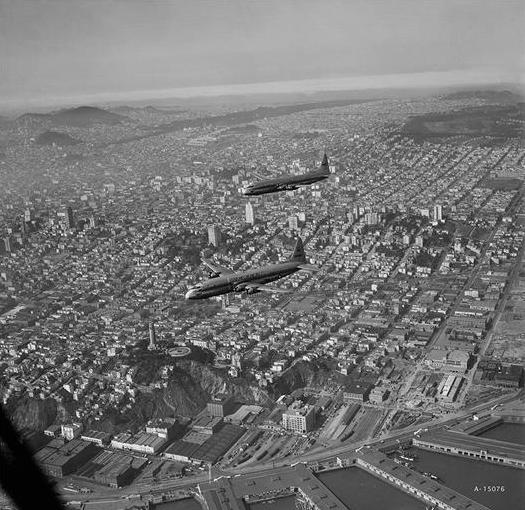 The two U.S. Navy Lockheed XR6V-1 Constitution prototypes in flight over San Francisco, California (USA), on 20 April 1950. The Coit Tower is visible below the airplane in the foreground.